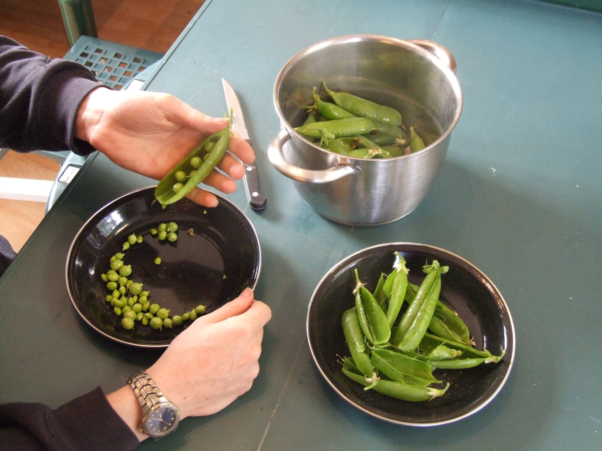 Peas being removed from a pod.